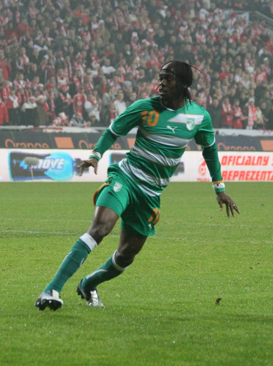 Ivorian football player Gervinho